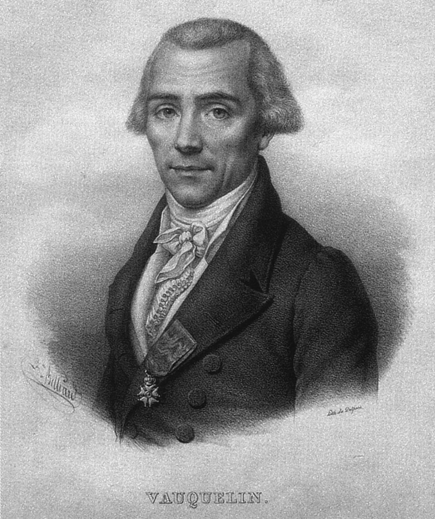 Louis Nicolas Vauquelin (16 May 1763 - 14 November 1829)